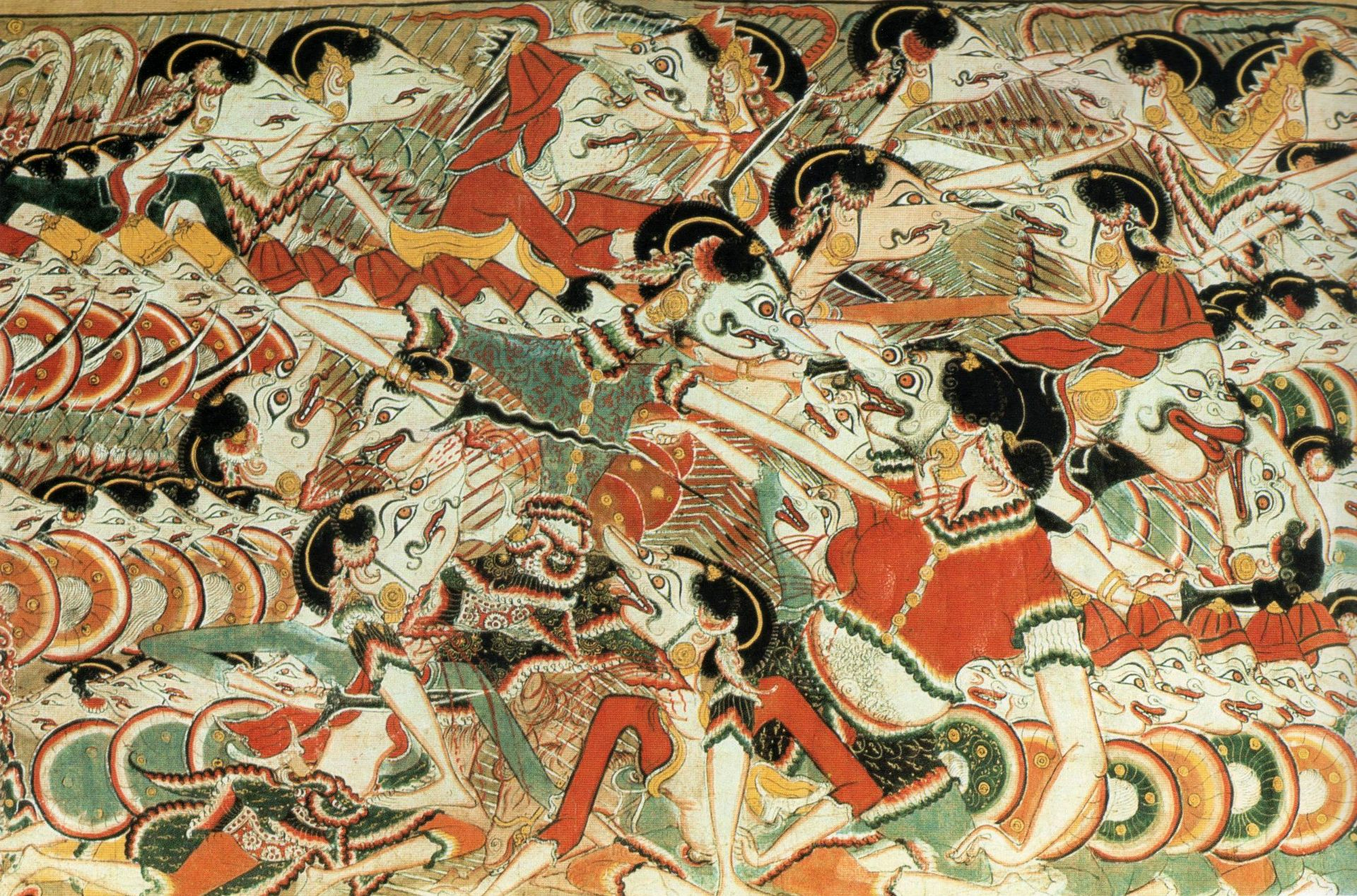 Wayang beber Gedompol, picture roll 5, scene 3. Final fight in alun-alun in Kediri. Tawang Alun kills Klana.